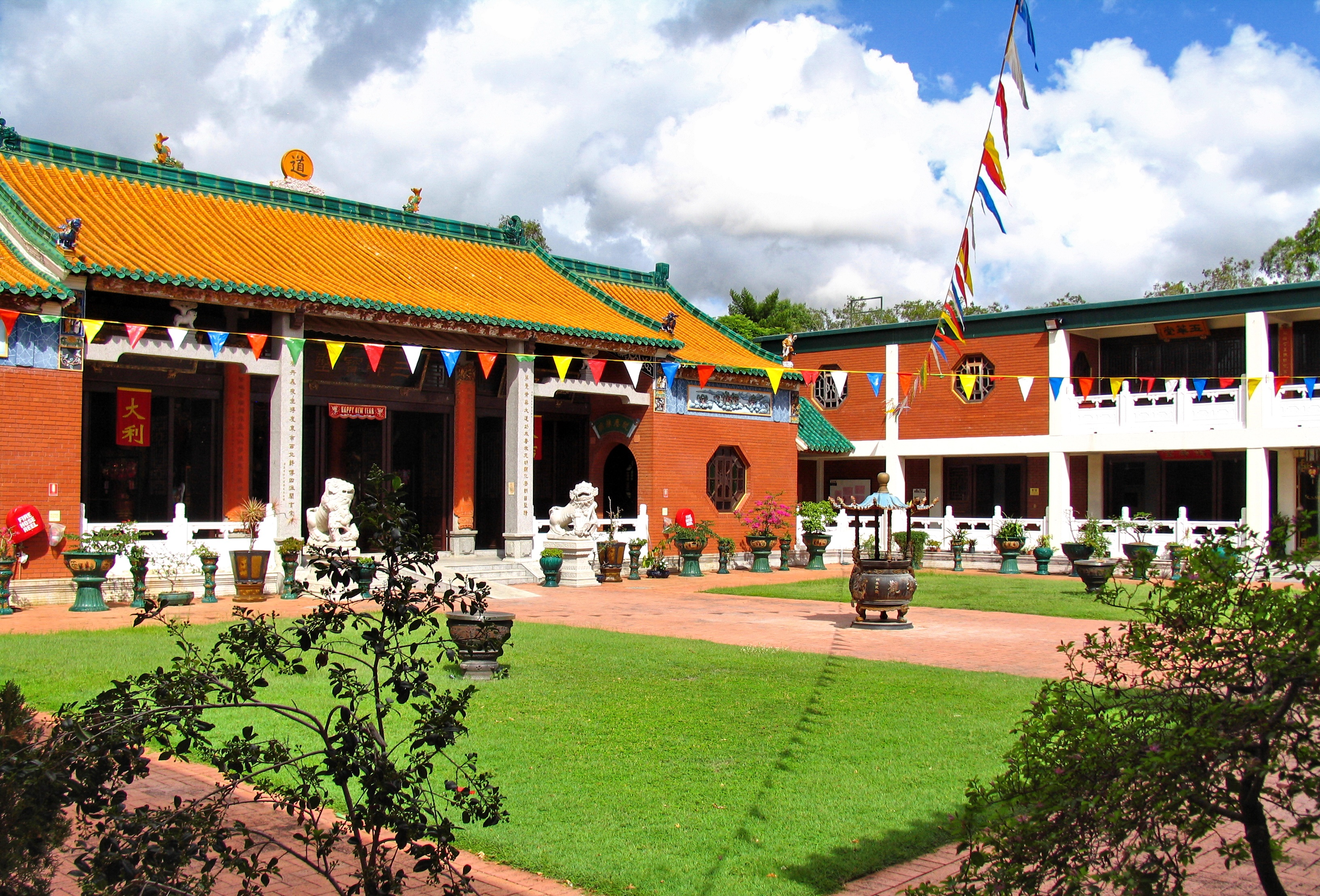 Green Pine Taoist Temple (青松觀) in Deagon, Brisbane, Australia. It is a temple belonging to the Evergreen Taoist Church.